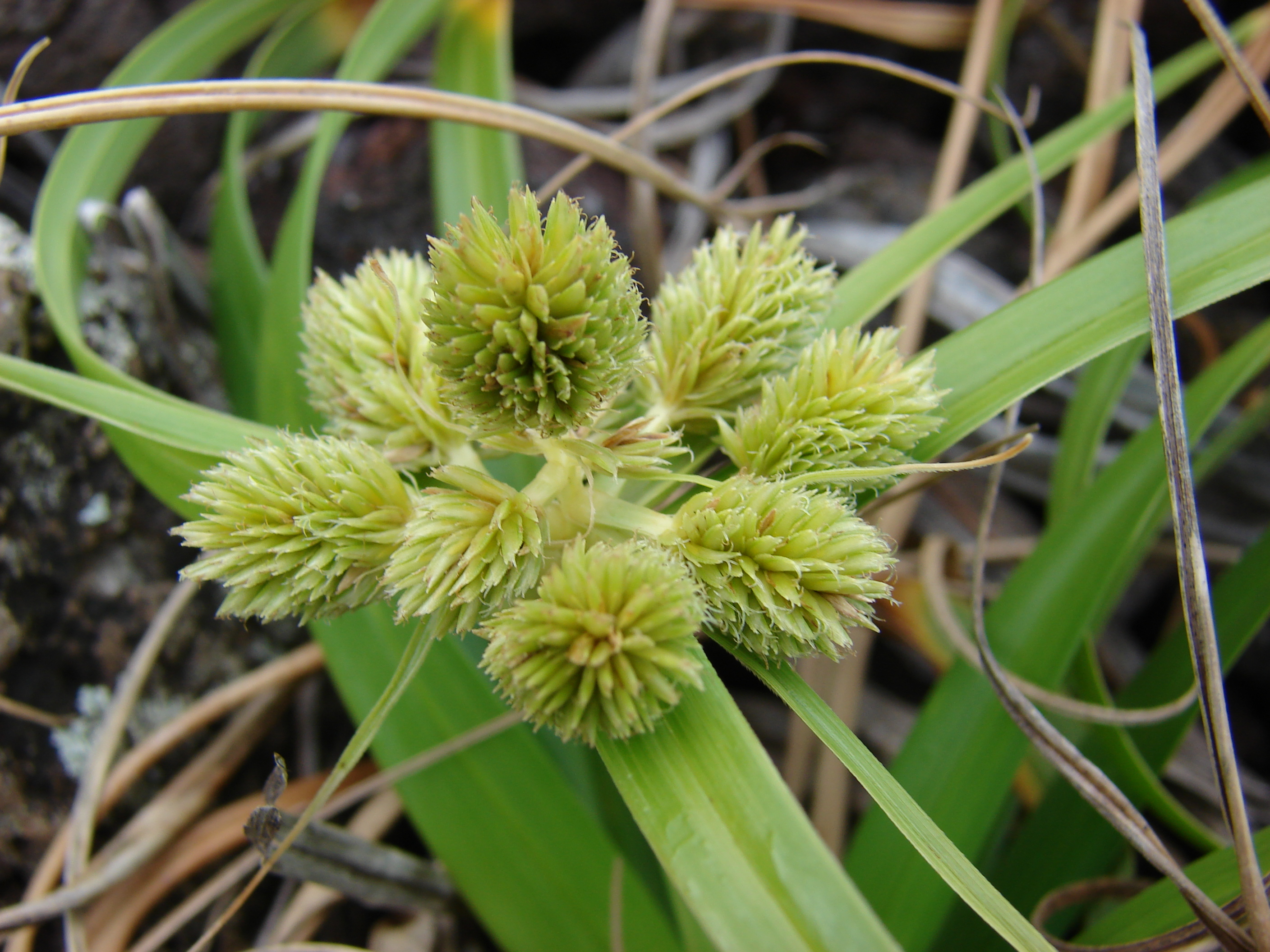 Cyperus phleoides (inflorescences). Location: Maui, Akaluaiki West Maui